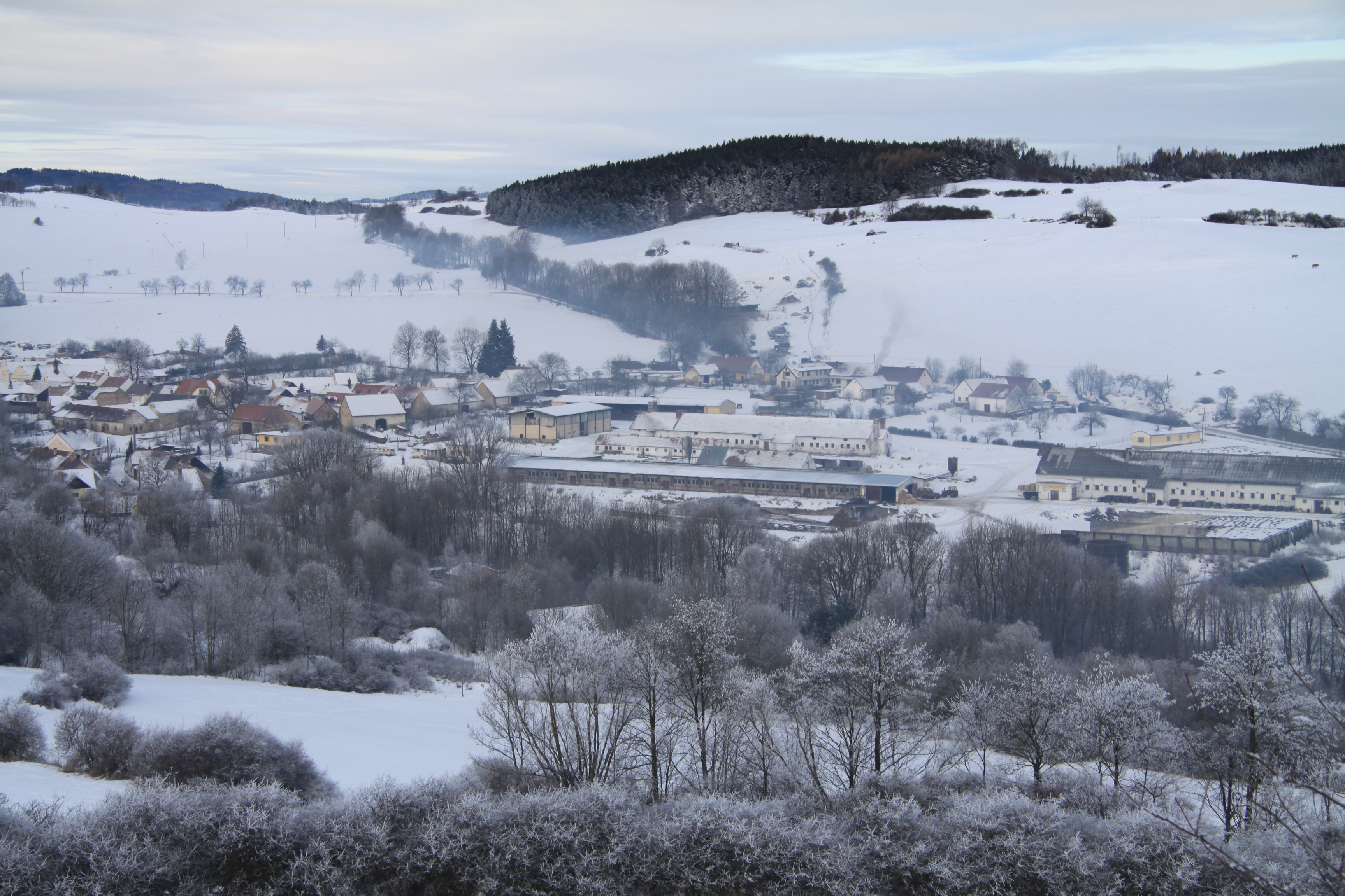 Zechovice village, part of Volyně, Strakonice District, Czech Republic